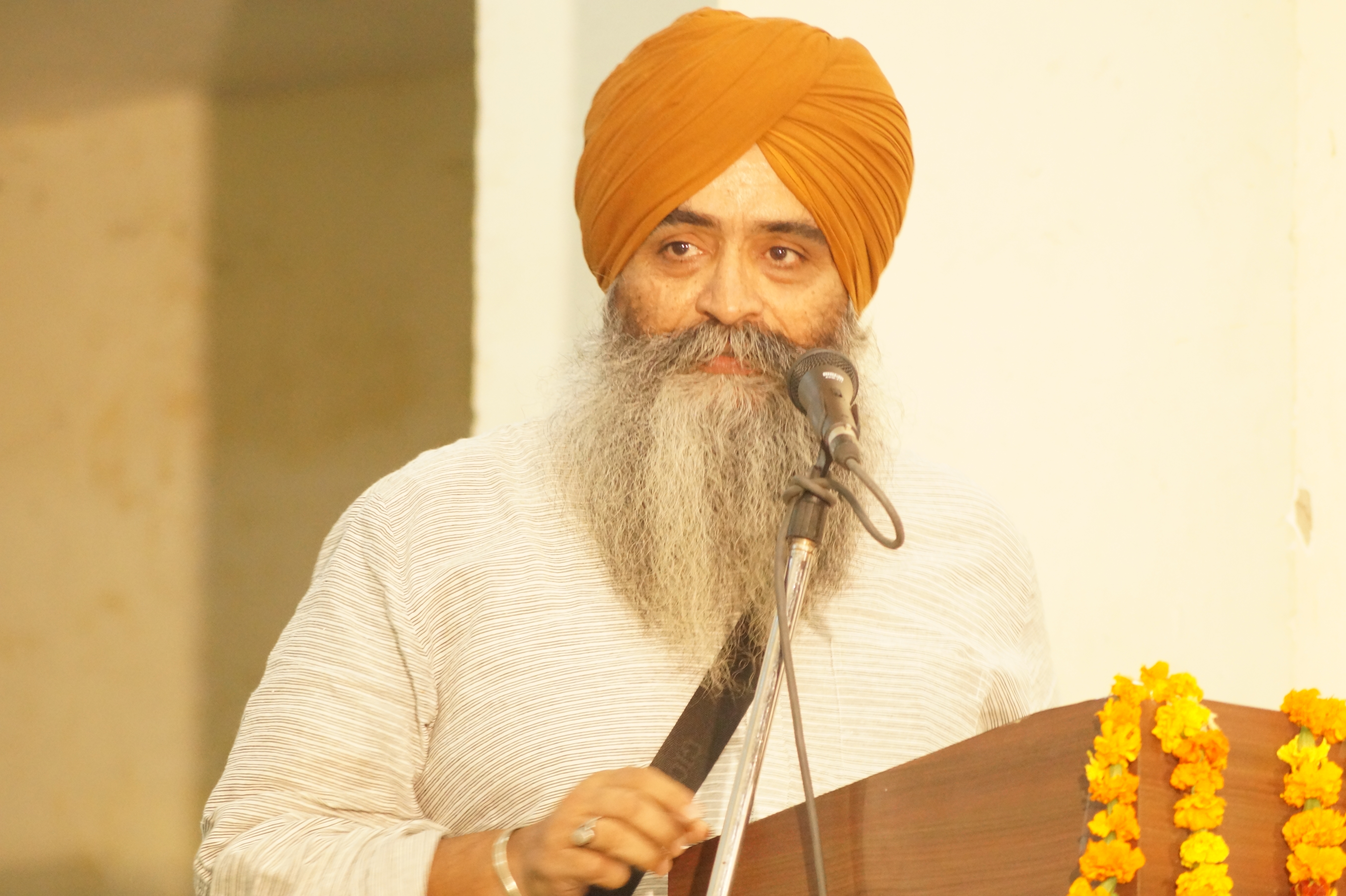 Punjabi actor